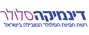 לוגו דינמיקה סלולר עדכני